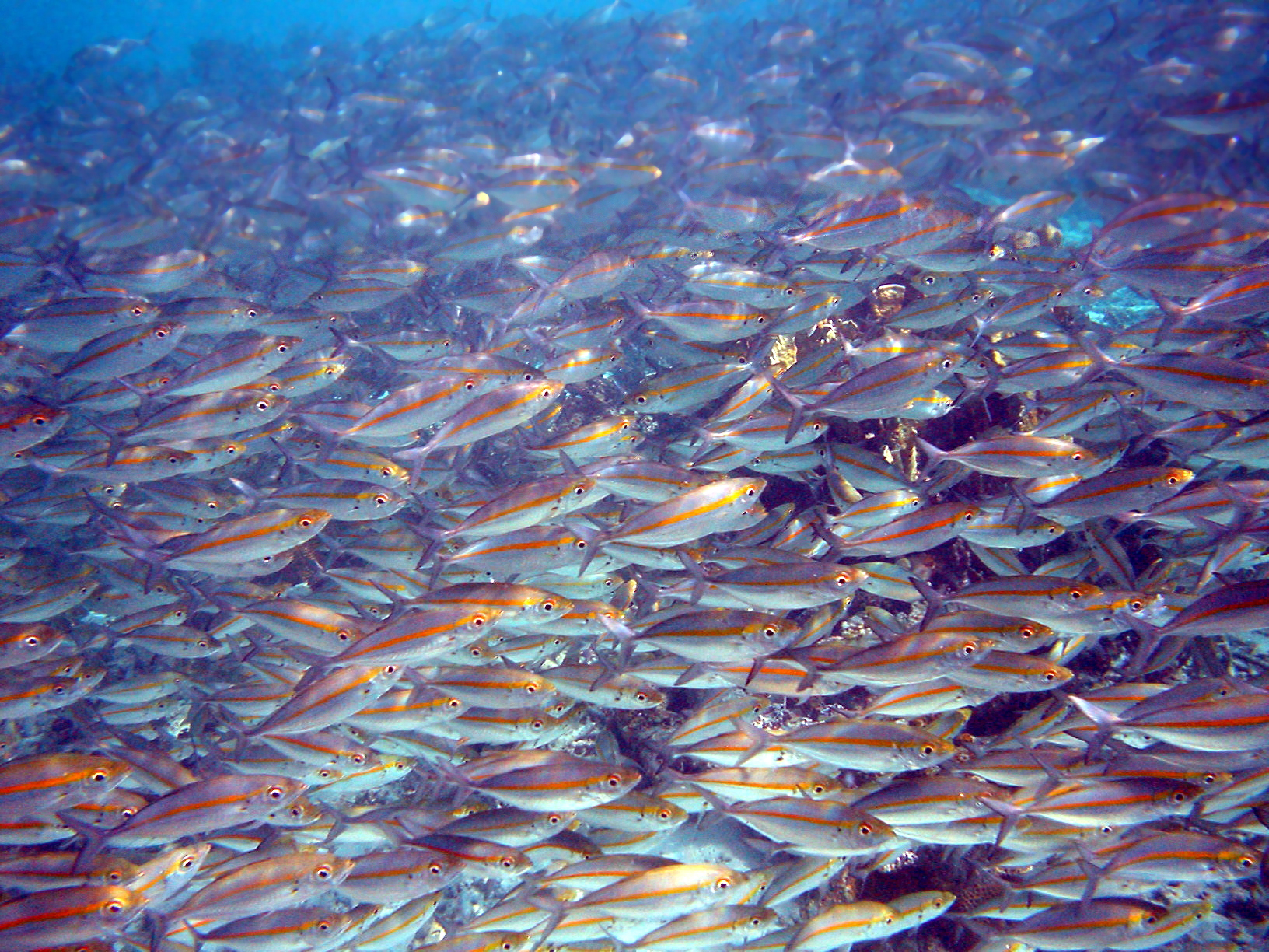 School of Goldband Fusilier, Pterocaesio chrysozona(?). The picture was taken in Papua New Guinea.